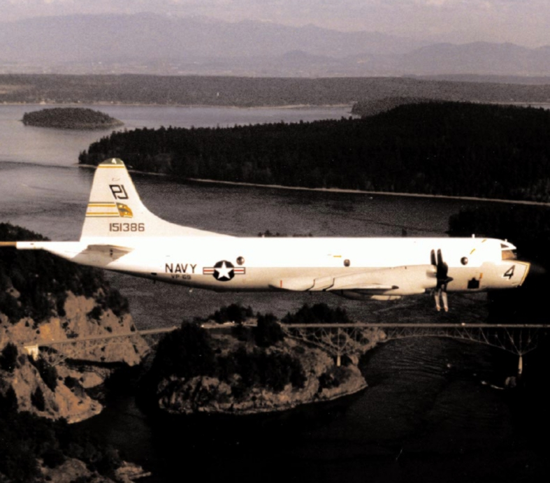 A U.S. Navy Lockheed P-3A-45-LO Orion (BuNo 151386) from Patrol Squadron VP-69 in flight. This aircraft was retired to the MASDC as 2P0010 on 15 June 1984.